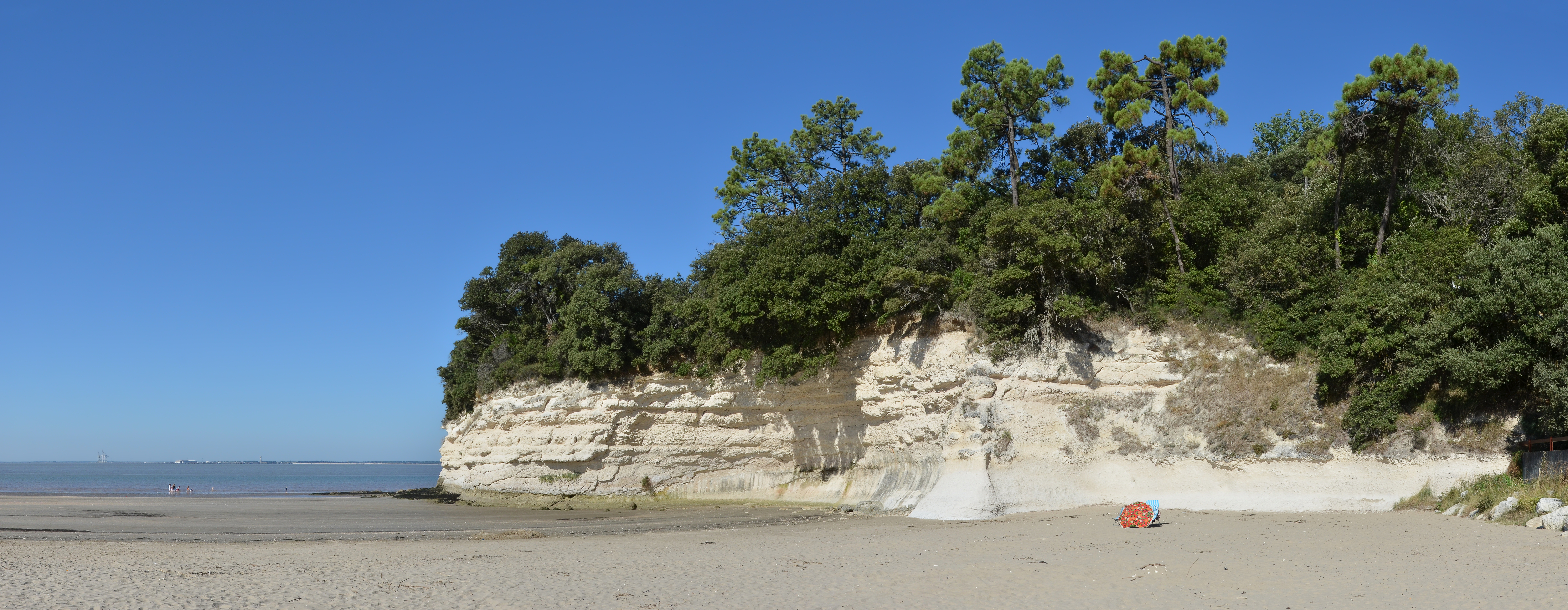 Cliff of shelly limestone and forest of Suzac, Meschers-sur-Gironde, Charente-Maritime, France.